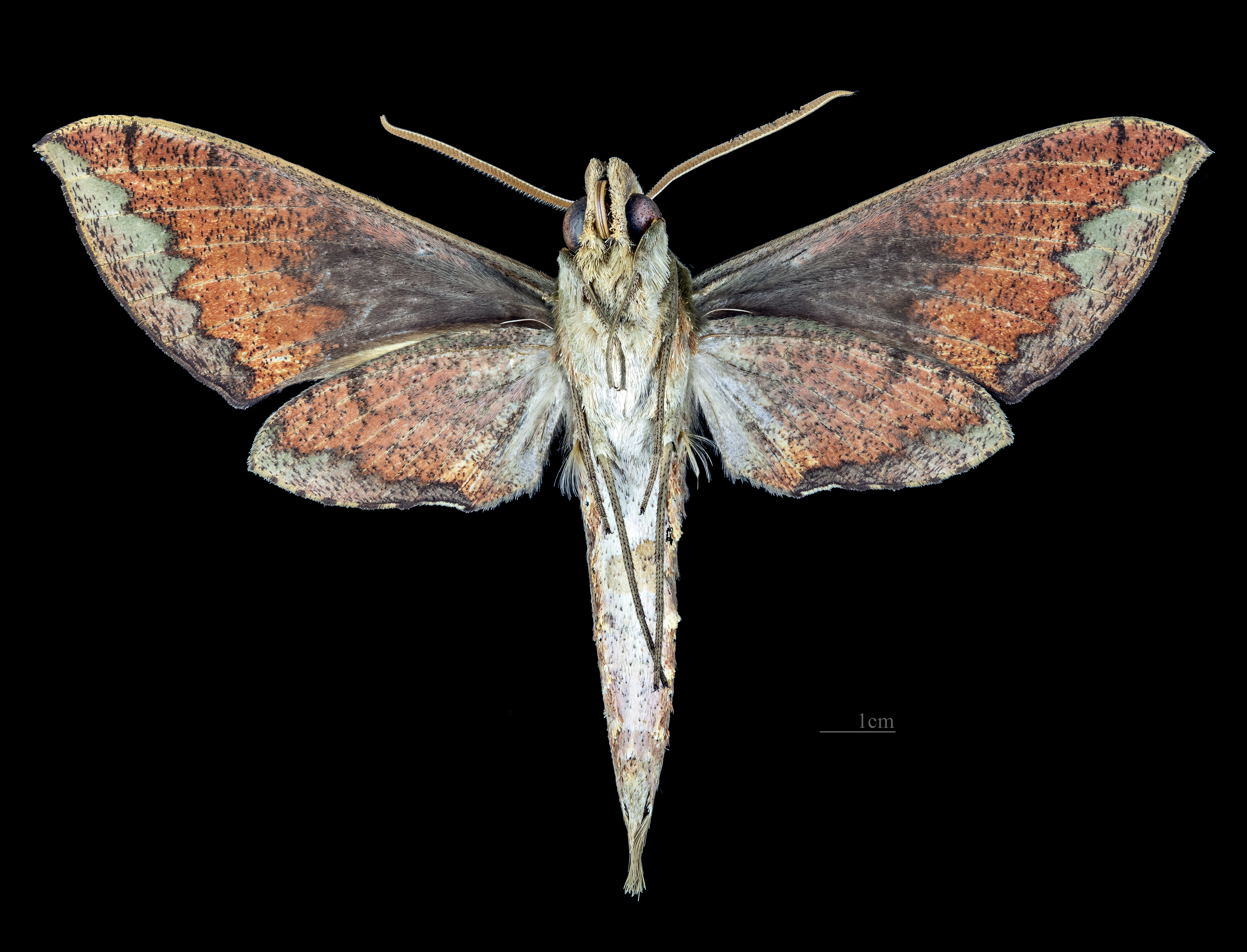 Xylophanes fassli -△ Ventral side Collection of the Mathematician Laurent Schwartz